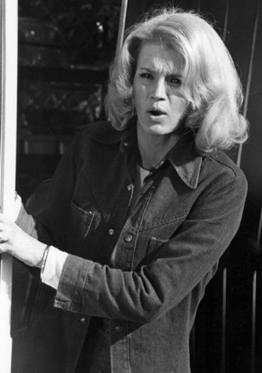 Publicity photo of Angie Dickenson from the television program Police Woman.